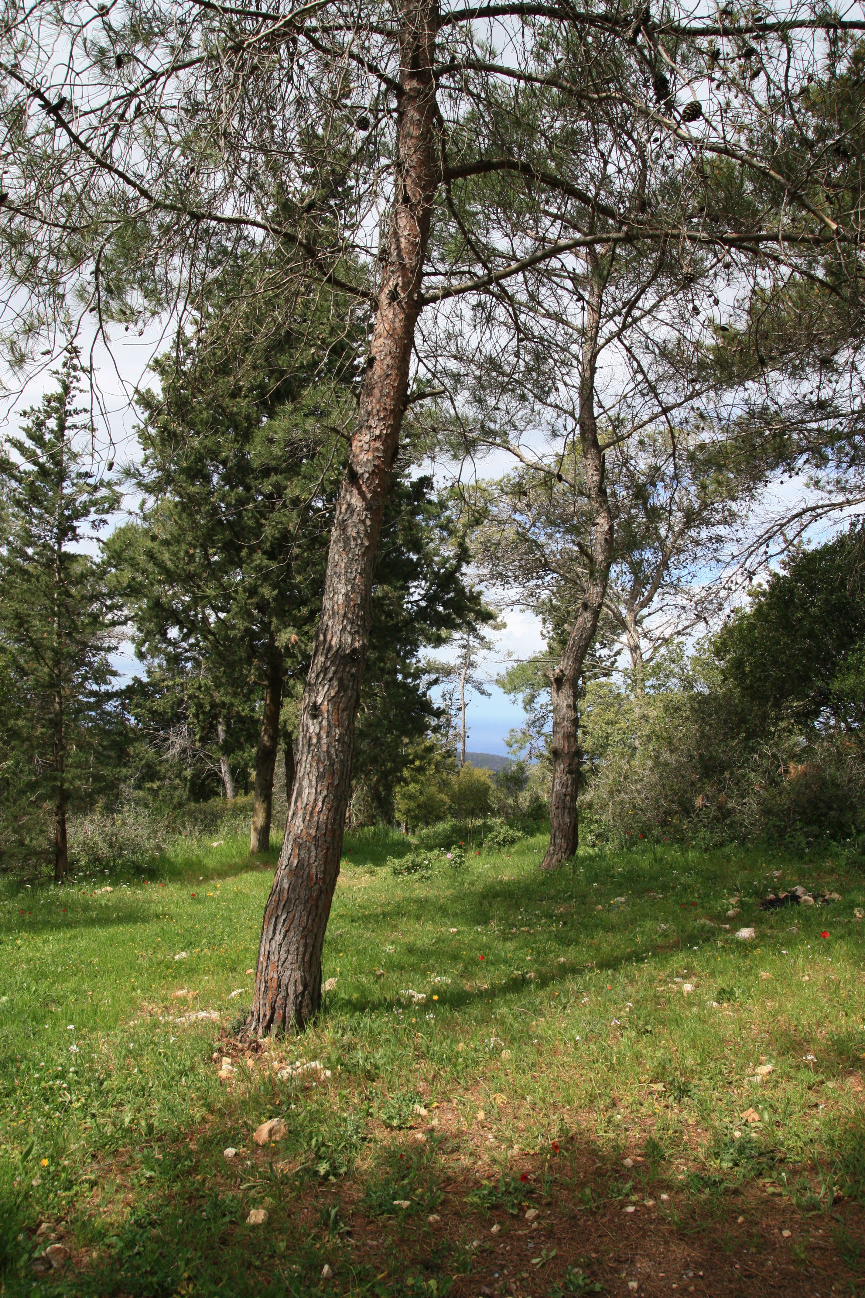 Mount Carmel